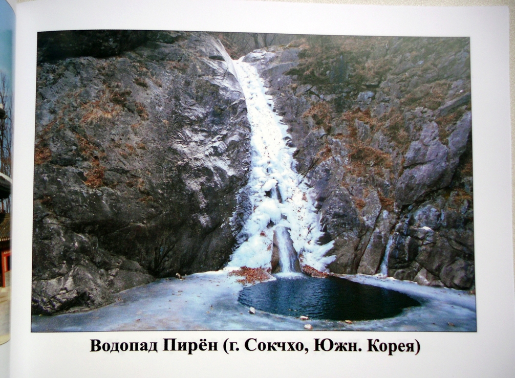 Photo from V. Pinchuk's book “Two months of wanderings and 14 days unfreedom,” ISBN 978-5-9909912-5-5